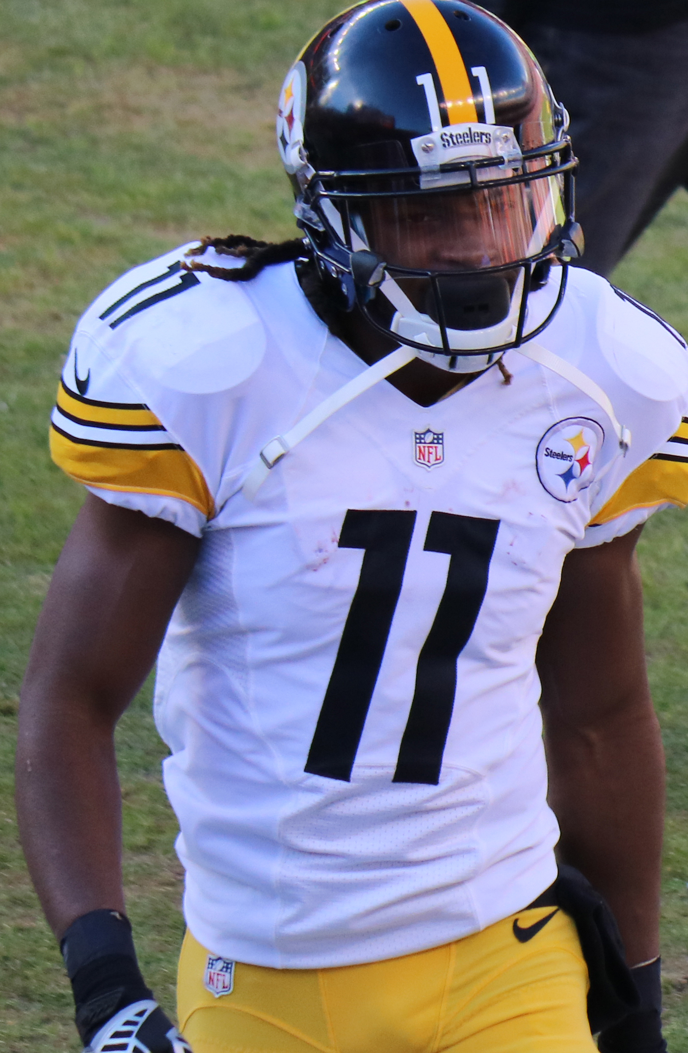 Markus Wheaton, a player on the National Football League.